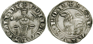 Italy, Papal States. Roman Senate. 13th Century. AR Grosso (3.31 g). Second emission, circa 1251-1265. + SENATVS • P • Q • R •, lion passant left + ROMA CAP'. MUNDI, Roma enthroned facing, holding globe and palm. Muntoni IV p. 189, 62; Serafini I p. 35, 52; Berman 110